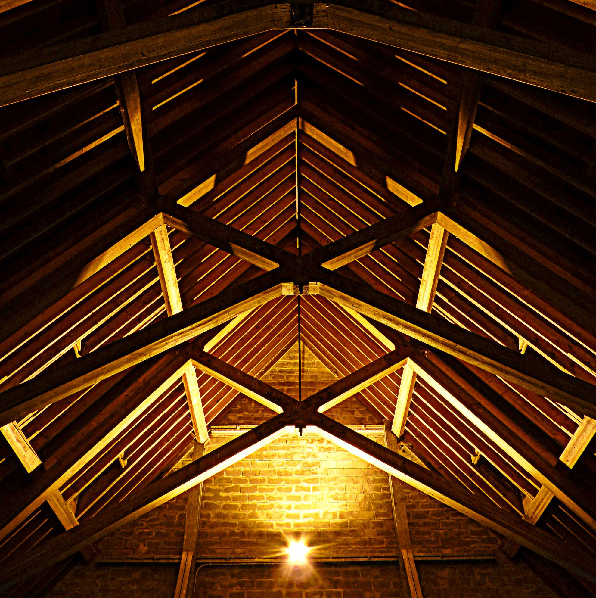 HDR photograph of the Old Stone Church in West Boylston, MA Newfotography